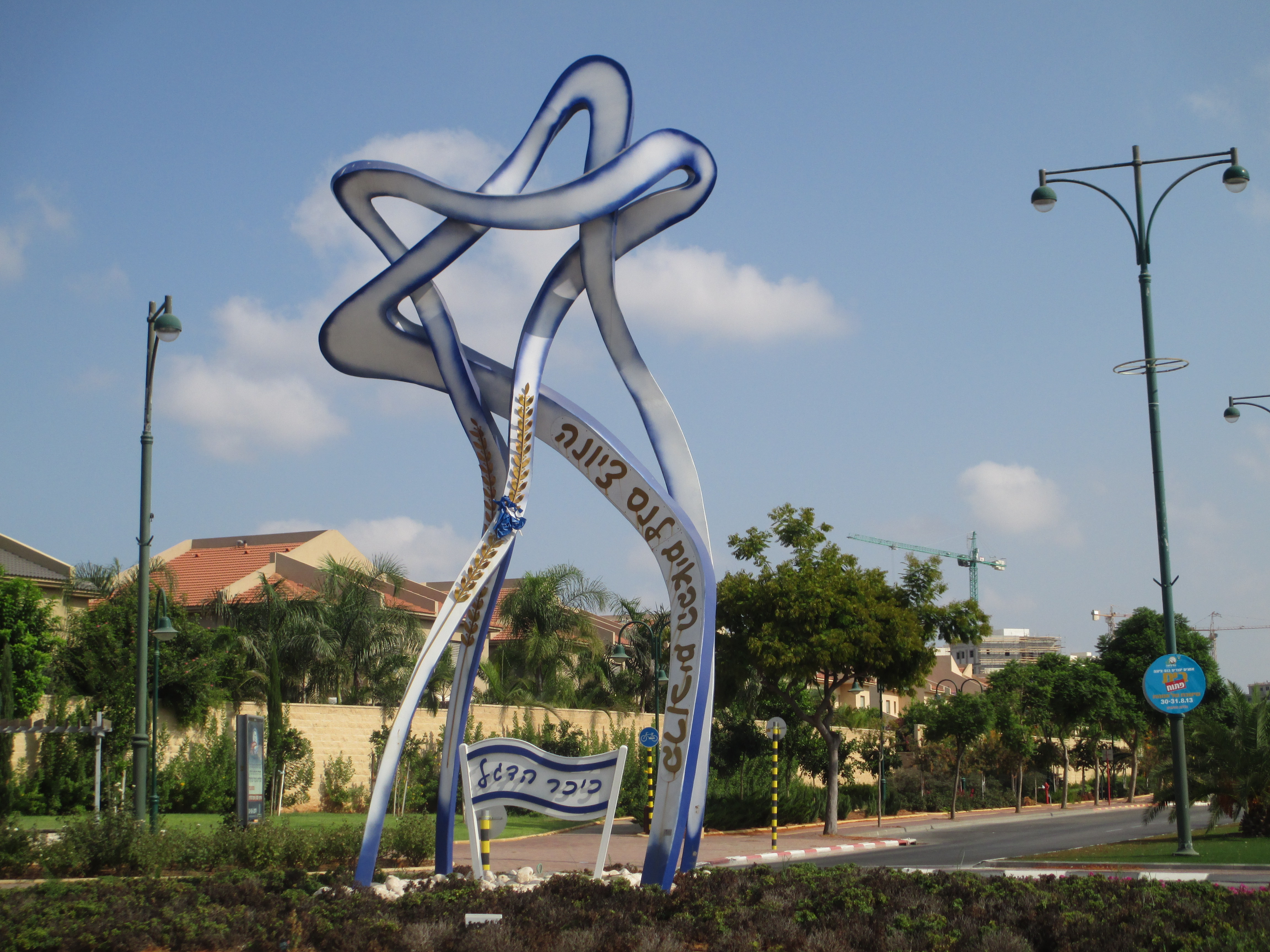 The Flag square in Ness Ziona